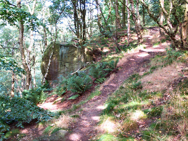 Crag in Great Dib wood. This crag is hidden in the wooded hillside where a footpath descends northwards from Yorkgate to the western end of Otley.